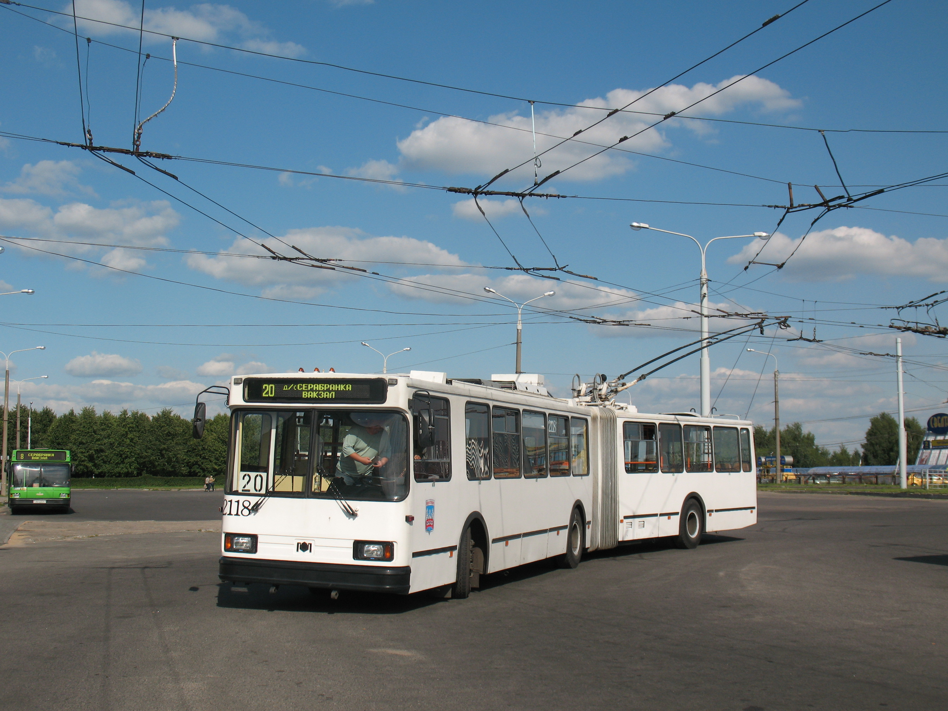 Operation of this vehicle: 2005-2015